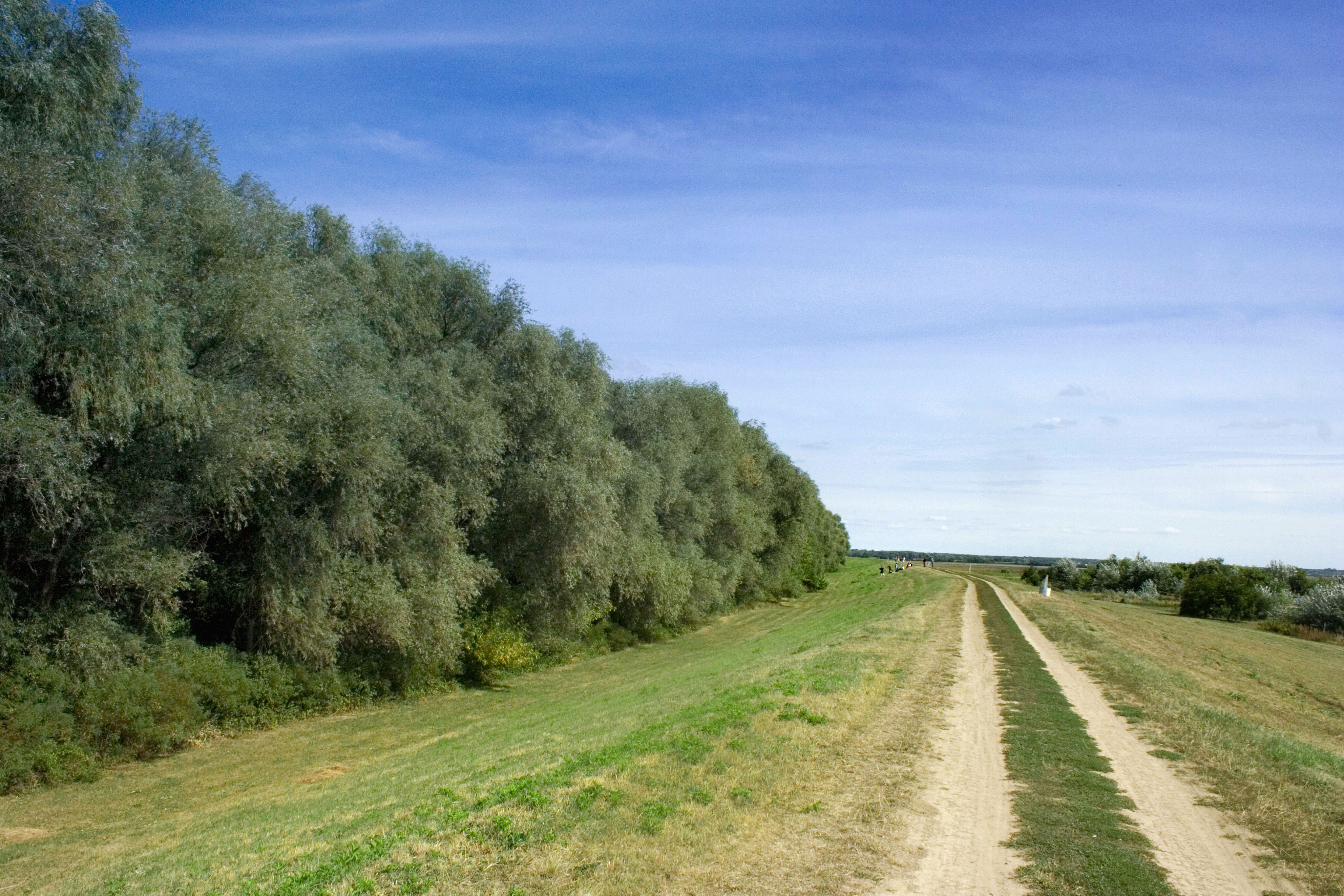 Maros river embankment, near to Mako - causeway, and floodplain forest belt Csongrád County - Hungary